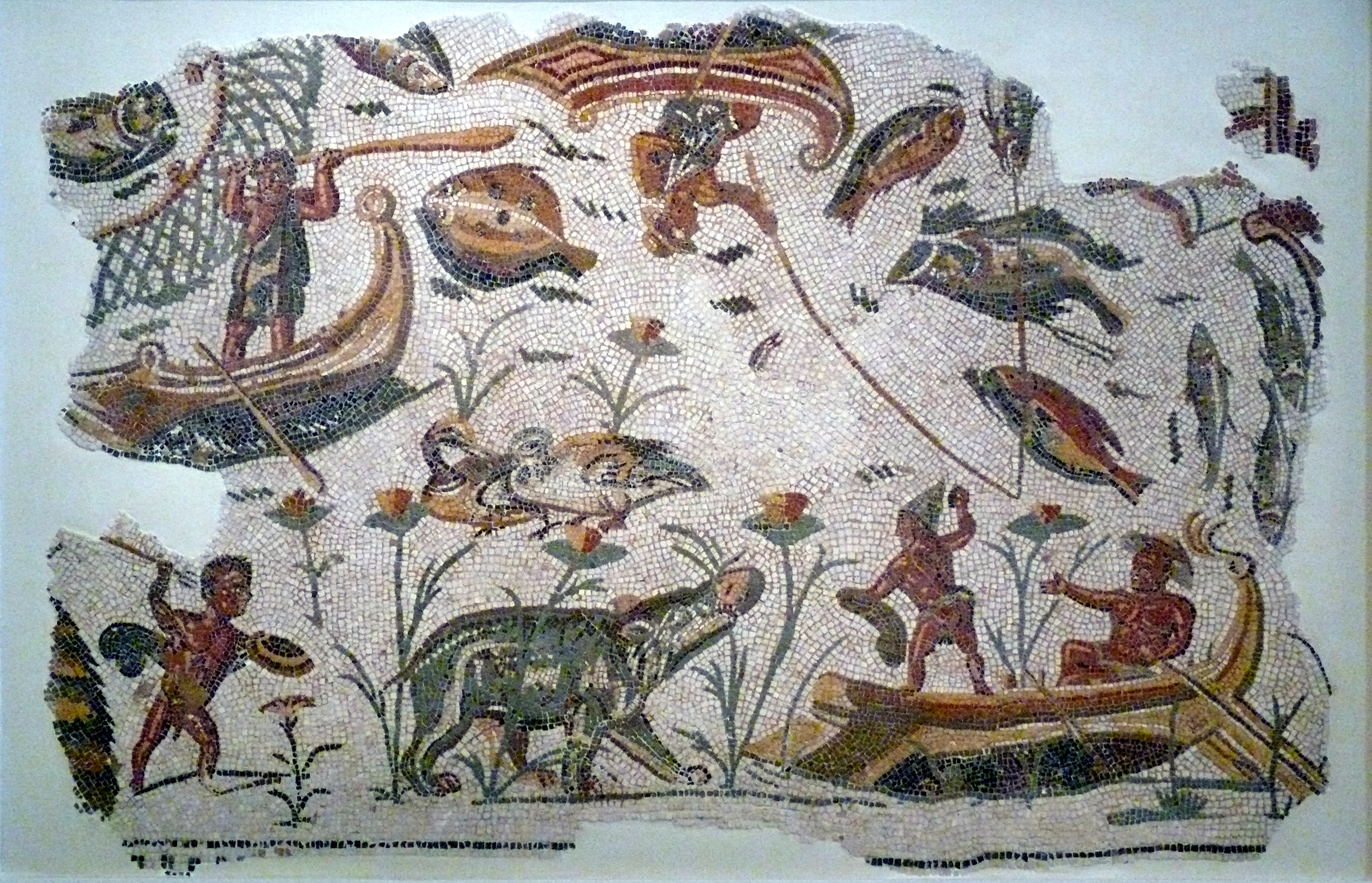 Mosaic depicting a landscape along the Nile, with hippopotamus and pygmies. Beginning third century Triclinium